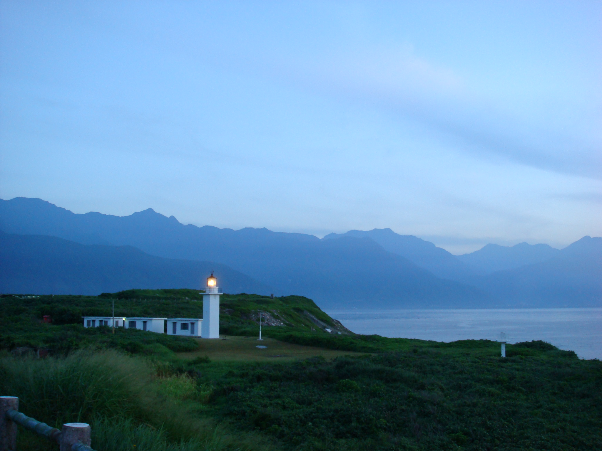 Cilaibi Lighthouse, Taiwan